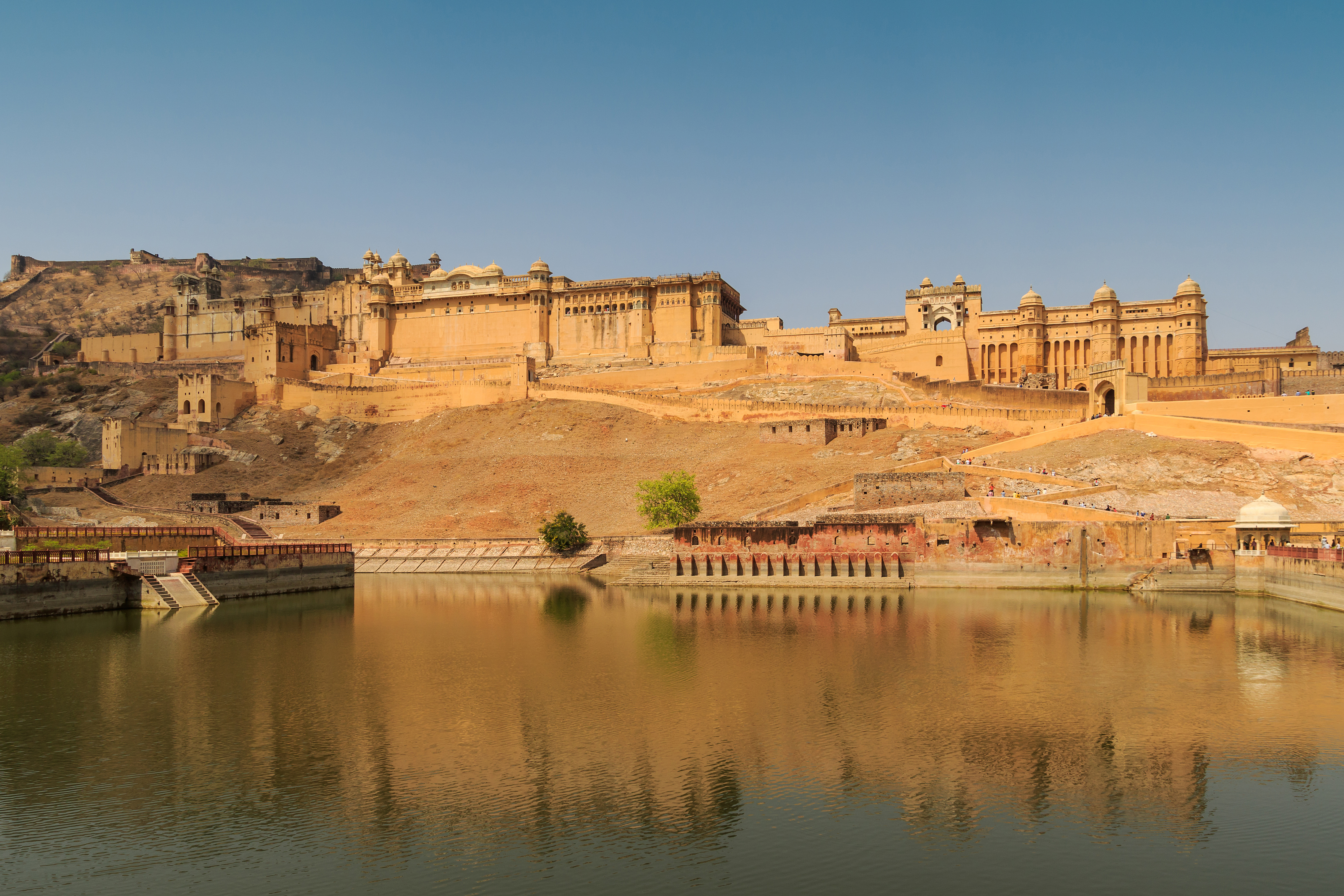 Amber Fort in Jaipur, India